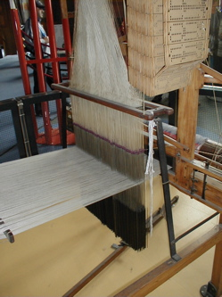 Close-up view of hooks in Jacquard loom on display at the museum of science and industry. Photograph taken by George H. Williams in July, 2004.